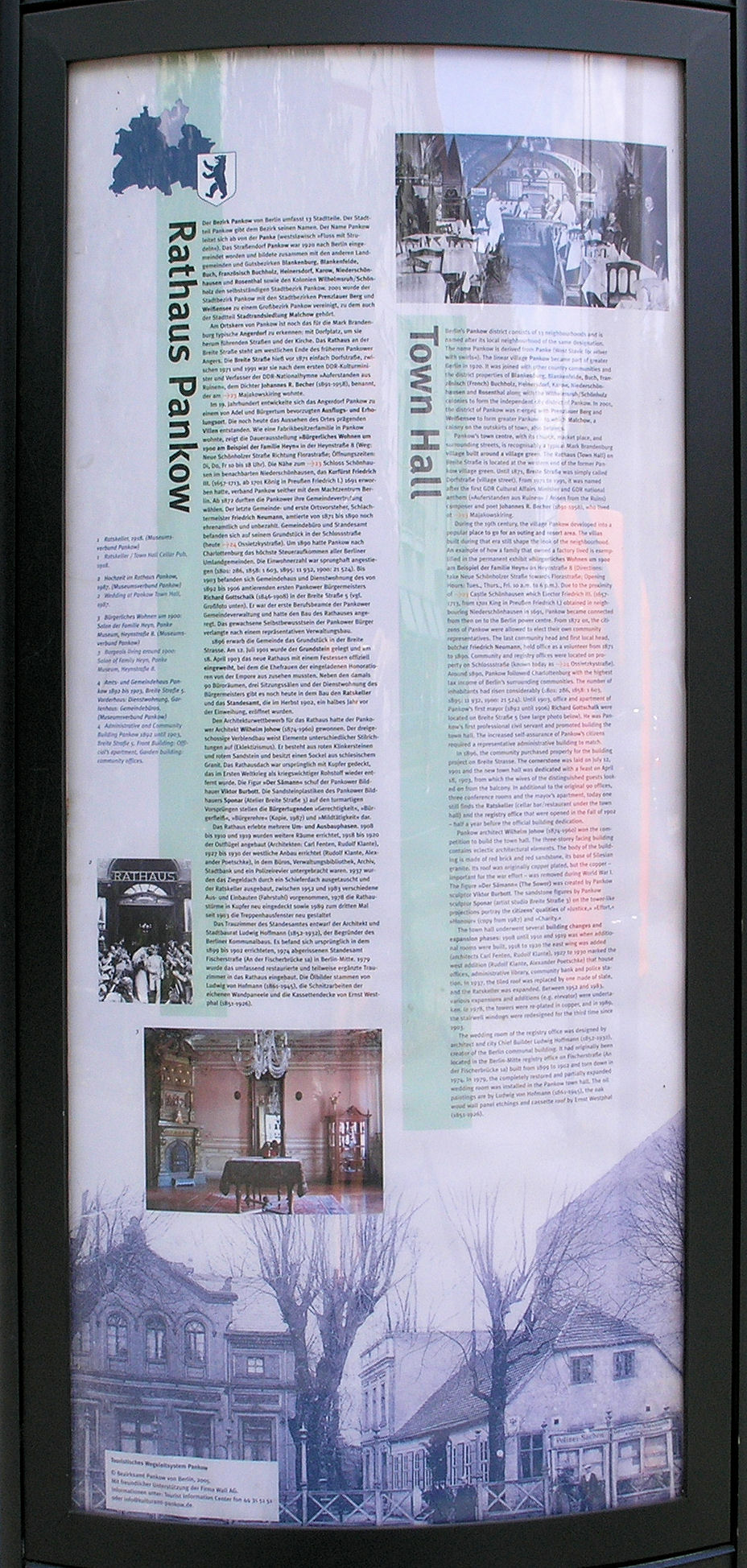 Memorial plaque, Rathaus Pankow, Breite Straße 24, Berlin-Pankow, Germany Koordinate:52°34′8″N 13°24′9″E / 52.56889°N 13.4025°E